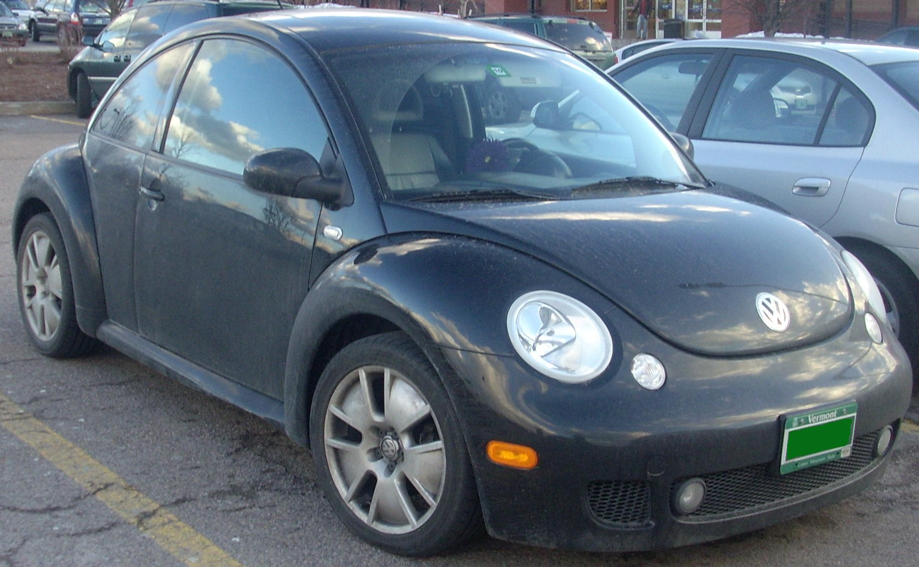 Volkswagen New Beetle photographed in Williston, VT, USA.